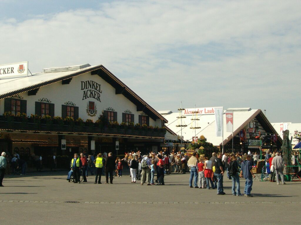 Stuttgart, Germany: Cannstatter Wasen (Stuttgart Beer Festival), Beer Tent of the brewery Dinkelacker